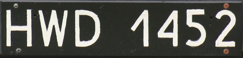 Polish border guard registration plate (1976 - 2000 series)